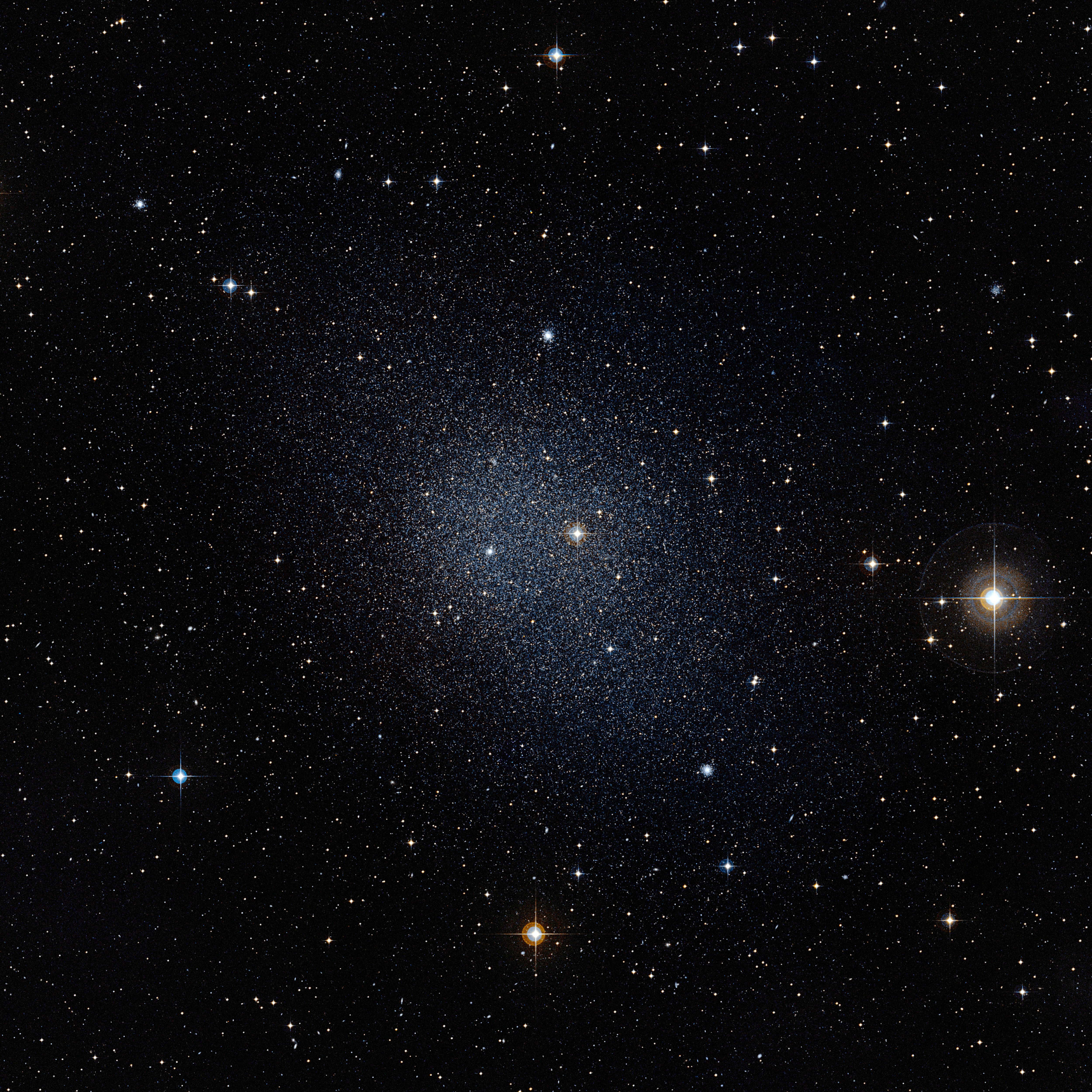 The Fornax dwarf galaxy is one of our Milky Way’s neighbouring dwarf galaxies. The Milky Way is, like all large galaxies, thought to have formed from smaller galaxies in the early days of the Universe. These small galaxies should also contain many very old stars, just as the Milky Way does, and a team of astronomers has now shown that this is indeed the case. This image was composed from data from the Digitized Sky Survey 2.